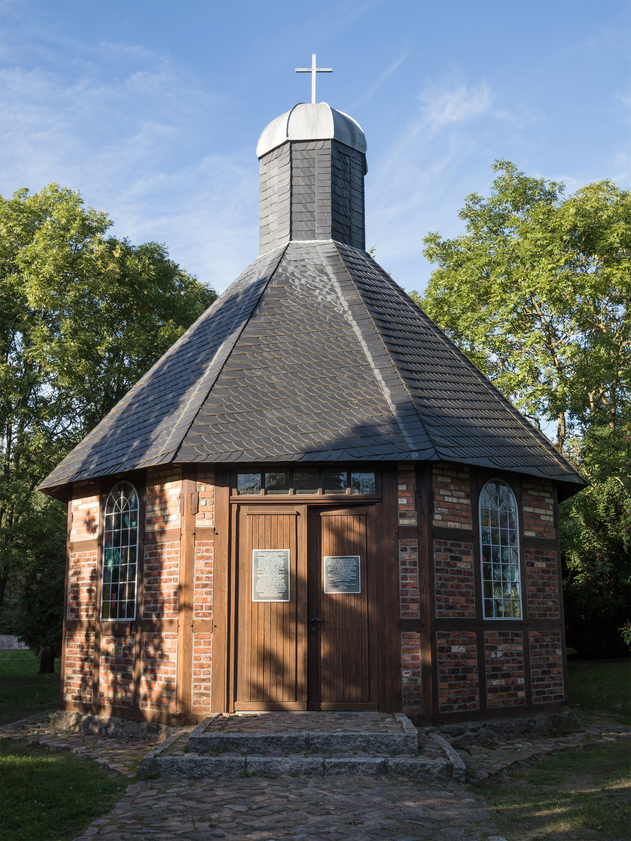 Peenemünde, chapel